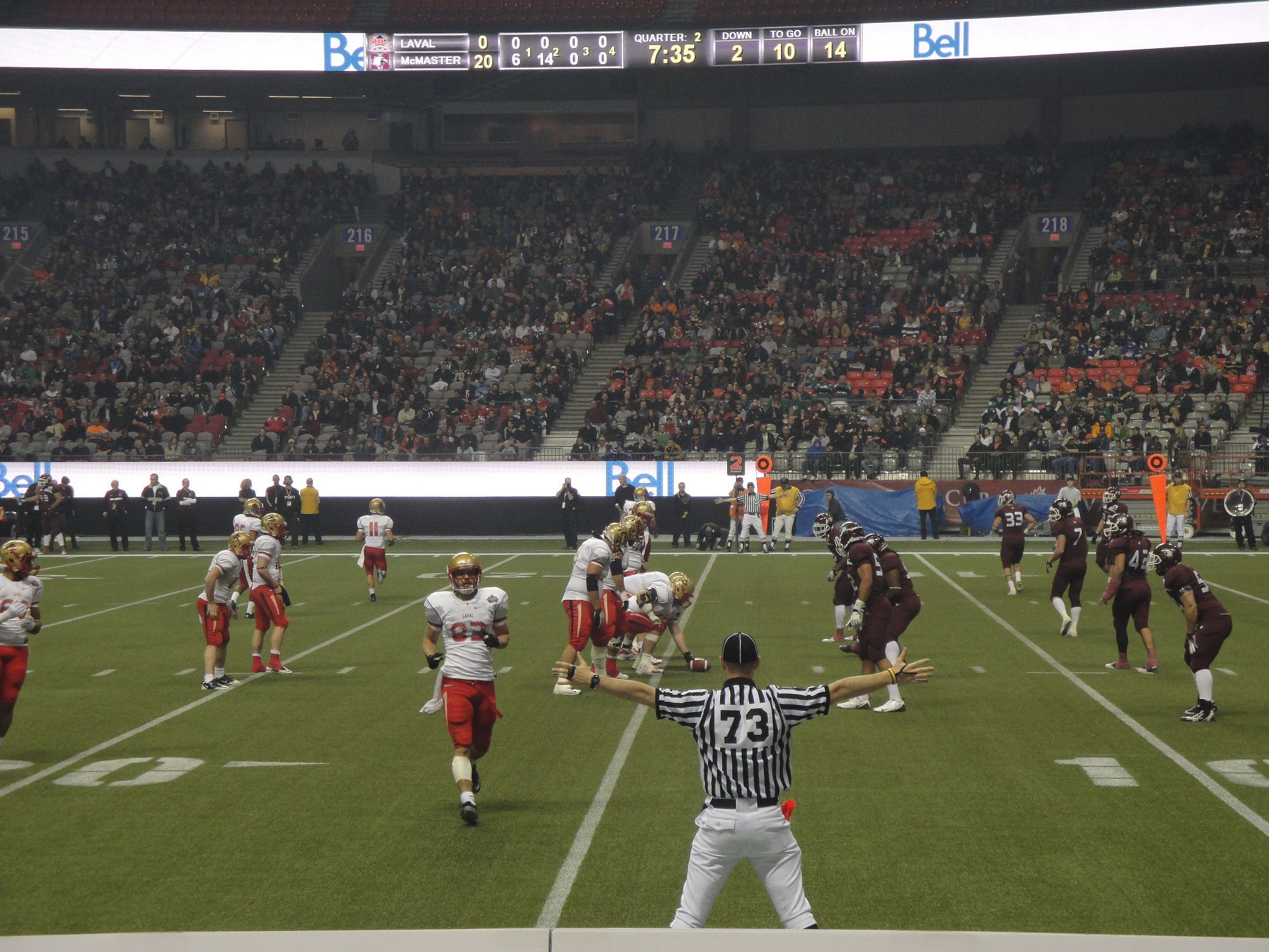 This image shows the Laval Rouge et Or football team on offense against the McMaster Marauders football team in the second quarter of the 47th Vanier Cup.